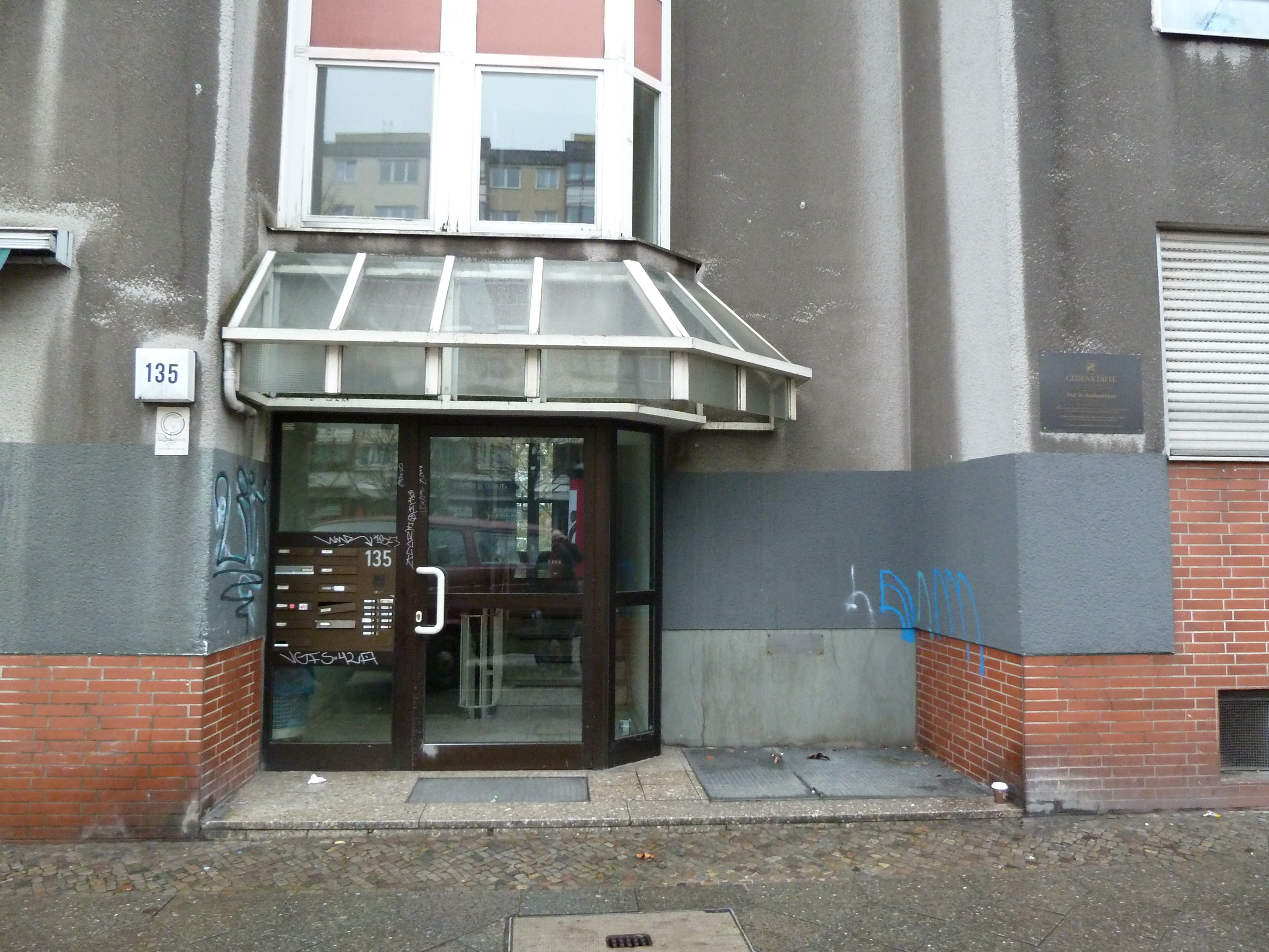 Former residence of Dr. Reinhard Furrer, Brunnenstraße 135, Berlin (backed up view)